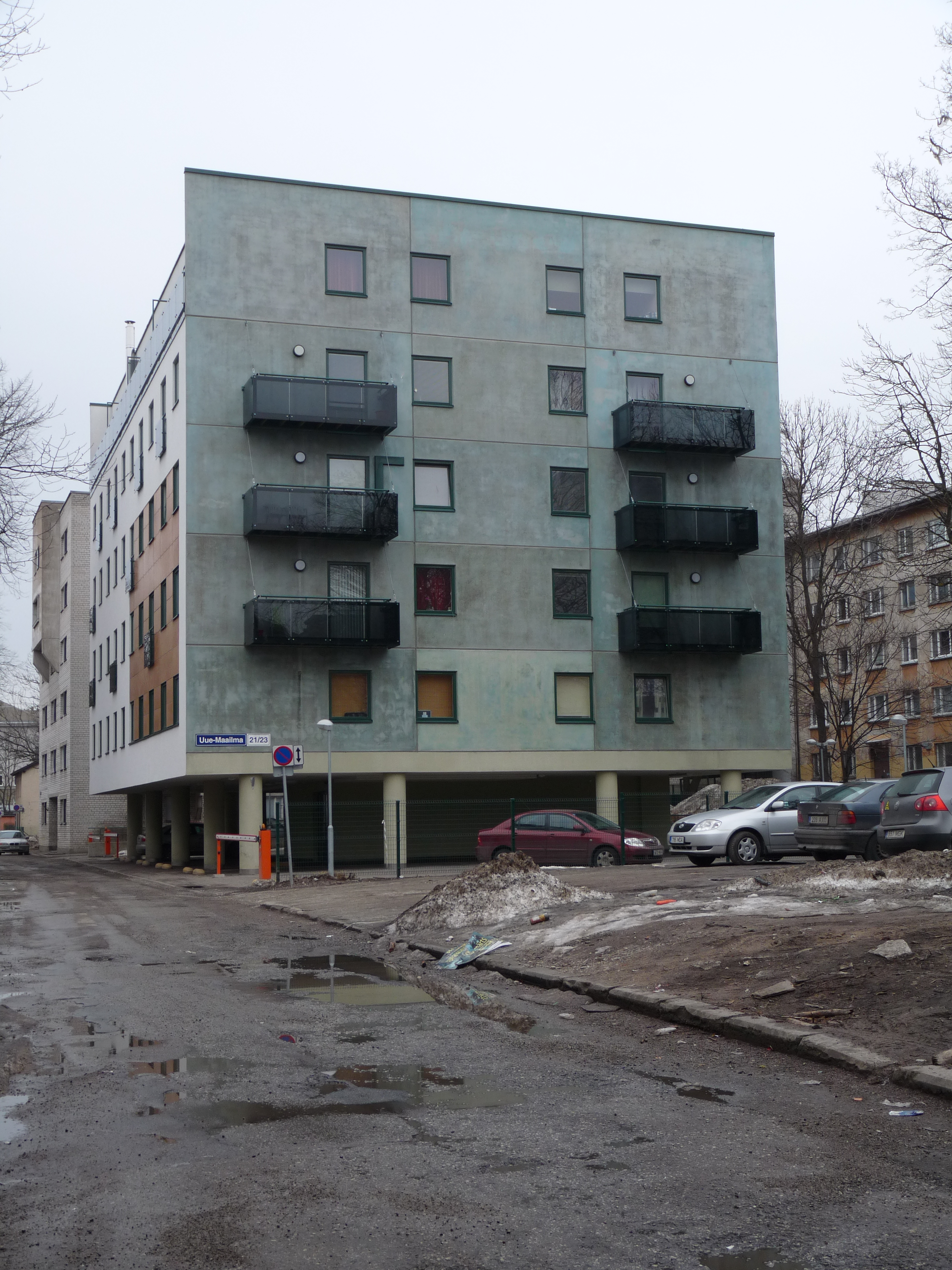 Uue Maailma 21/23 apartments